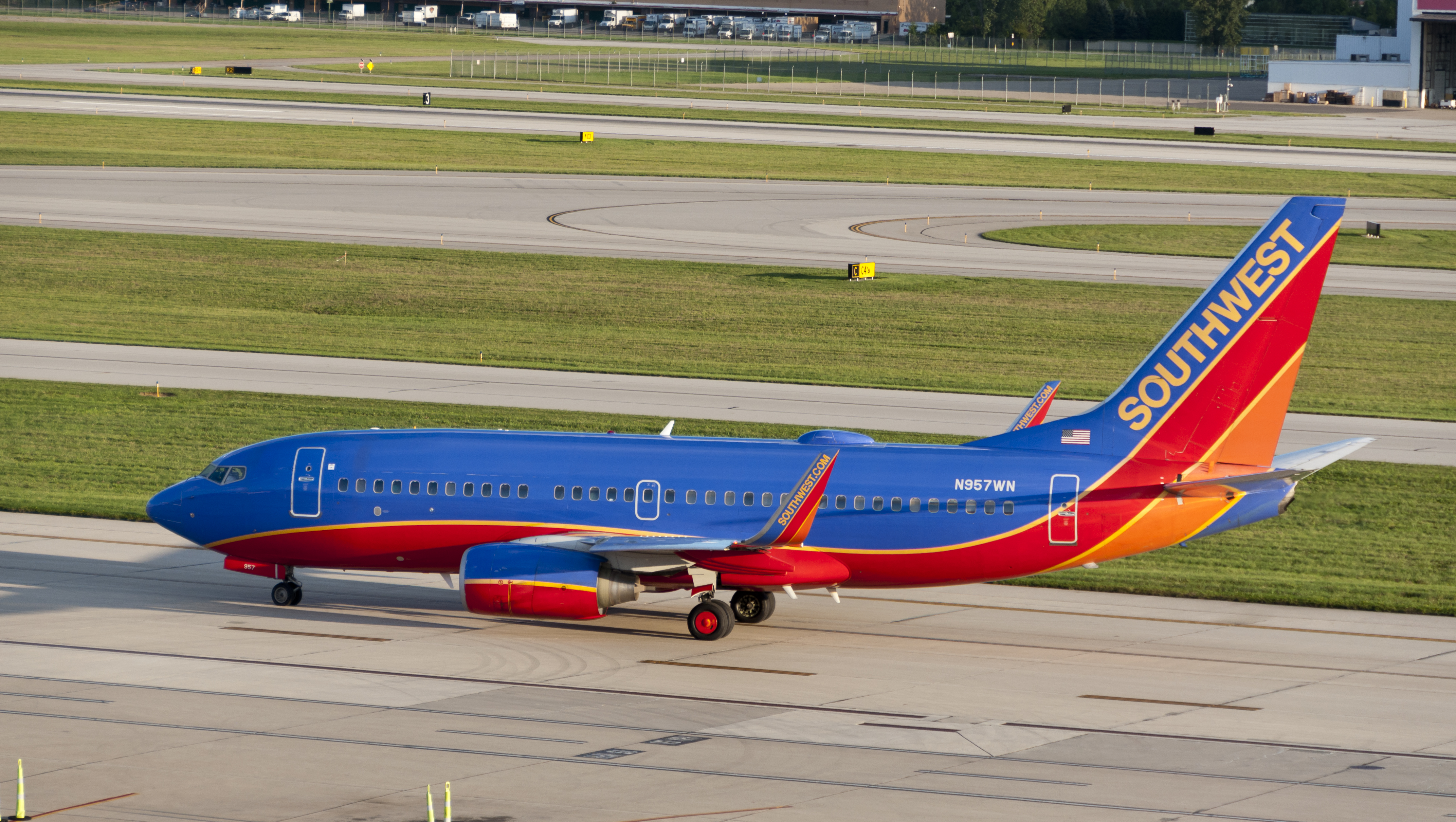 A Southwest Boeing 737-700 with the Tail number N957WN, preparing to take off on an August evening from KCMH.